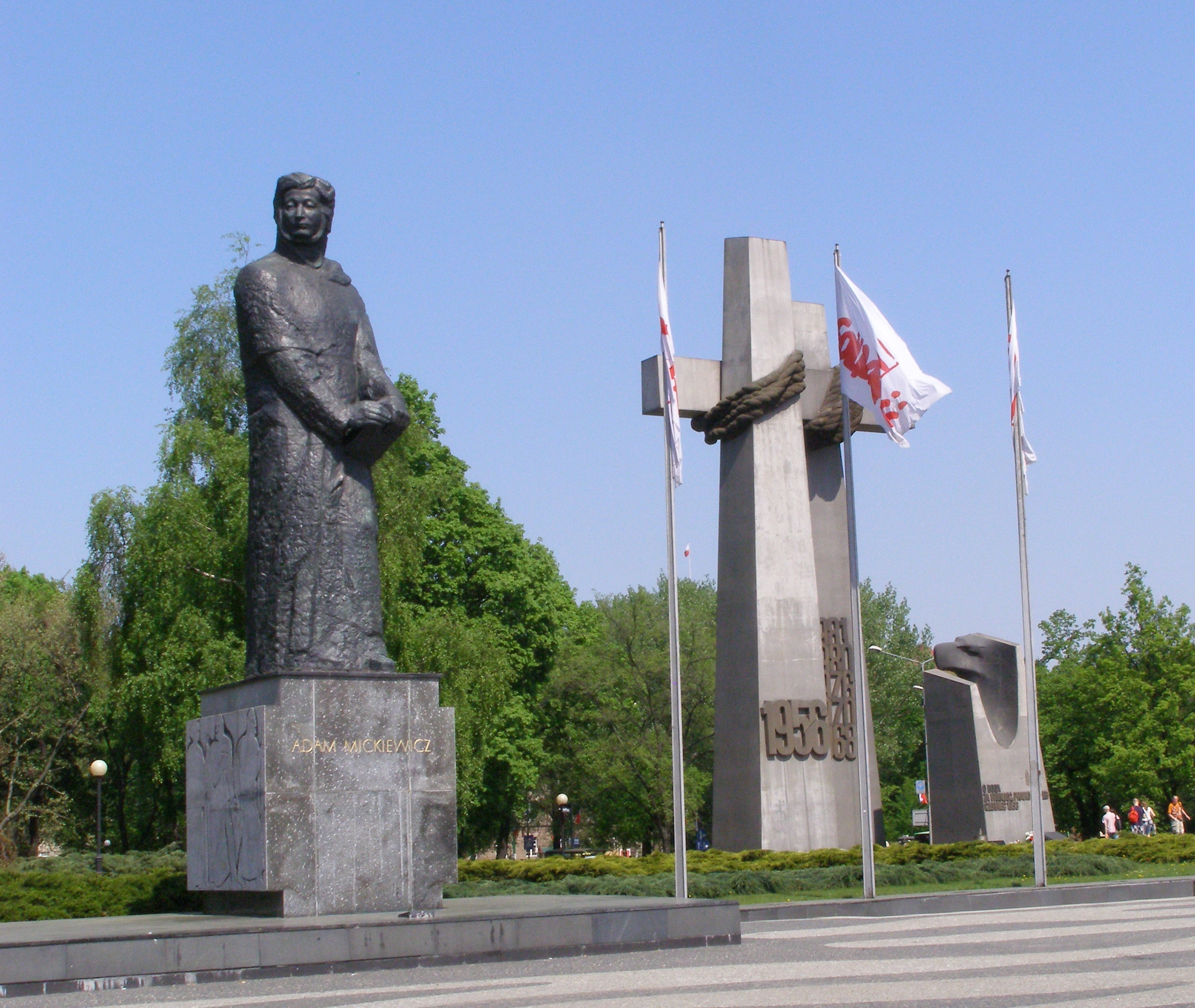 Poznań - monument of Adam Mickiewicz and monument to the Victims of 1956 Protests